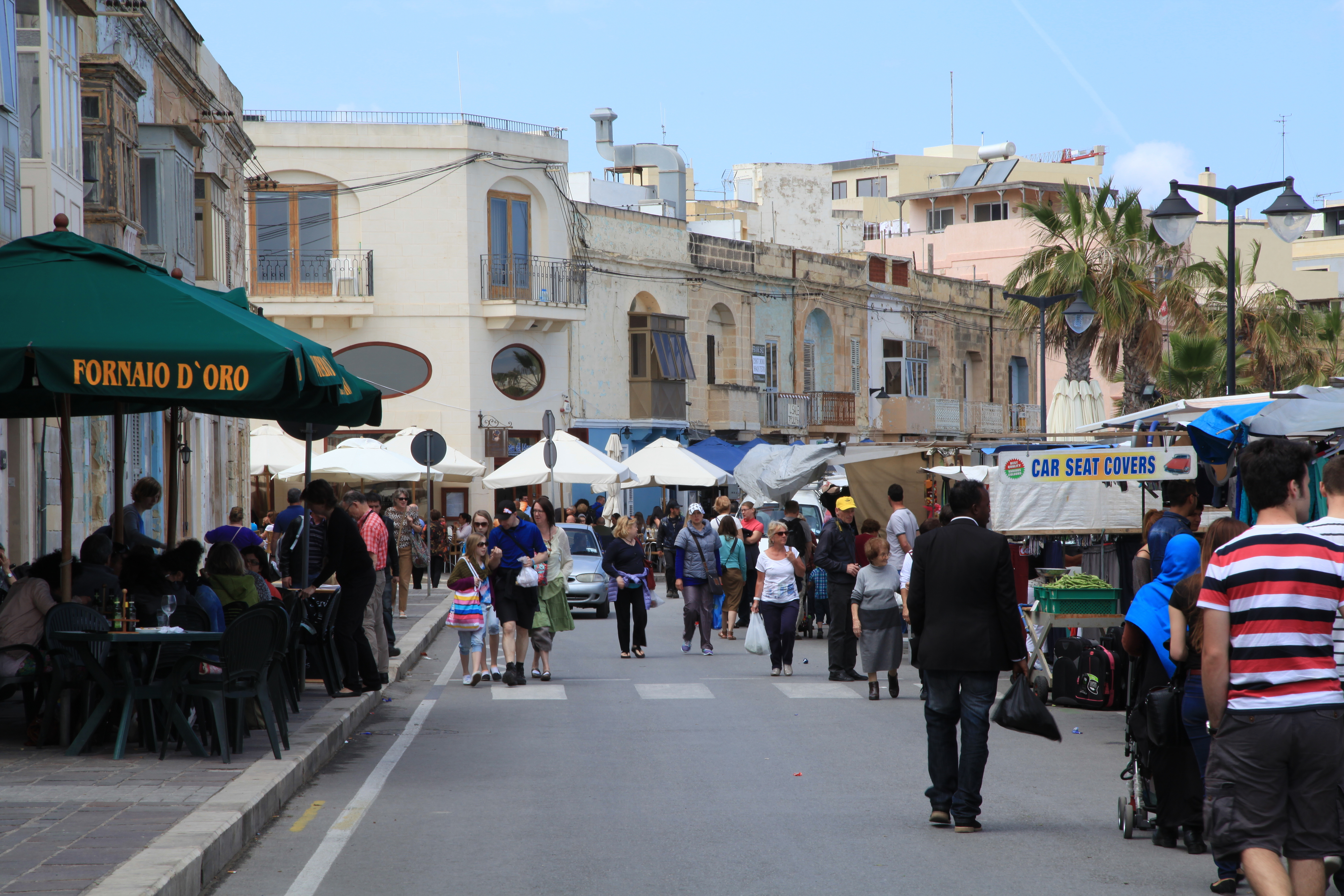 Xatt is-Sajjieda in Marsaxlokk, Malta